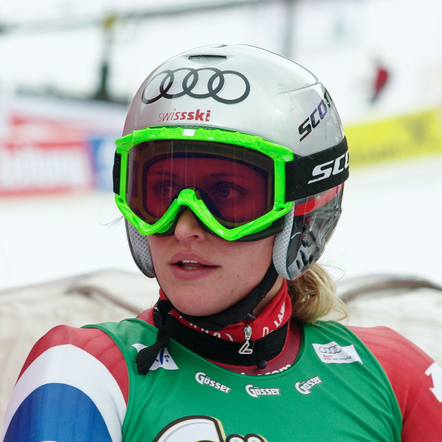 Swiss alpine skier Denise Feierabend after the first run of the Giant Slalom in Semmering (Austria) on 28 December 2010.